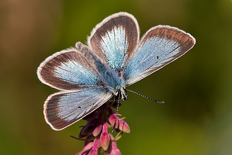 Picture of Sivery Argus (Aricia nicias)